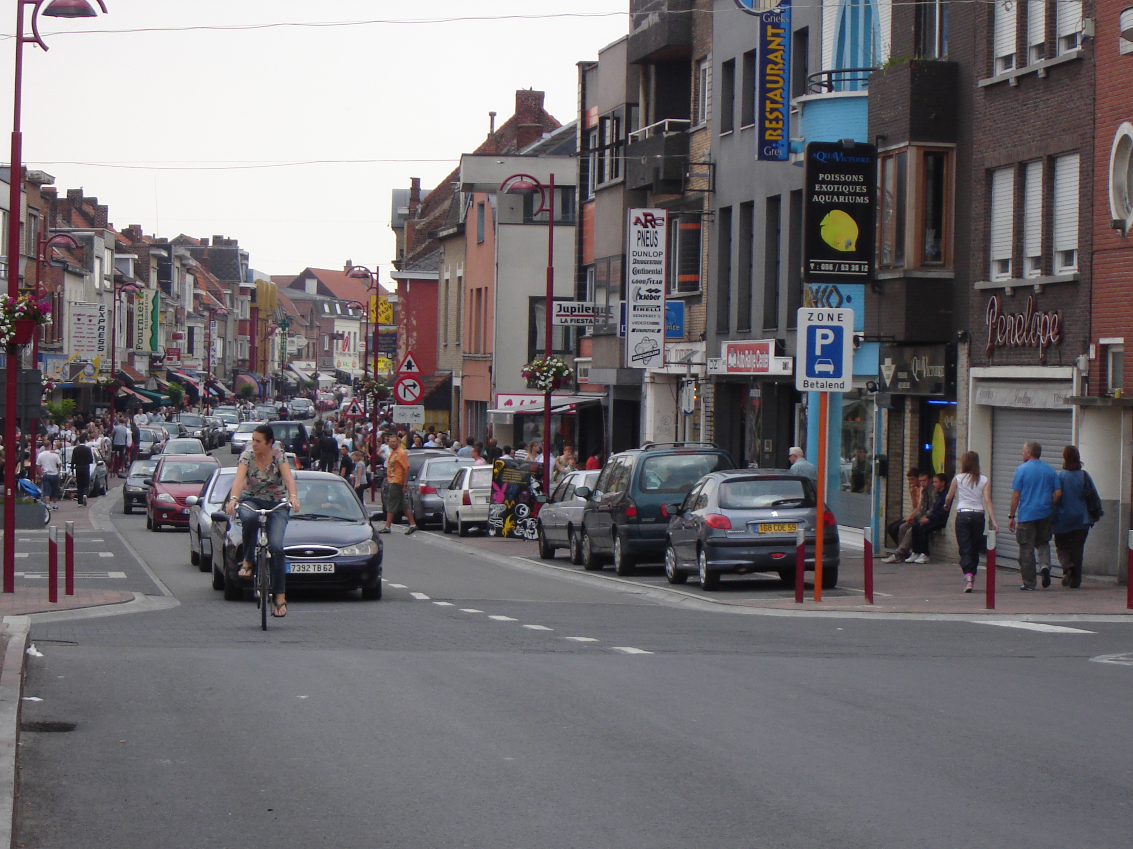 Rijselstraat (Street to Lille) street in the De Barakken quarter in Menen, close to the French border. On Sundays, this street is a crowded shopping street, visited almost solely by French tourists. Menen, West Flanders, Belgium